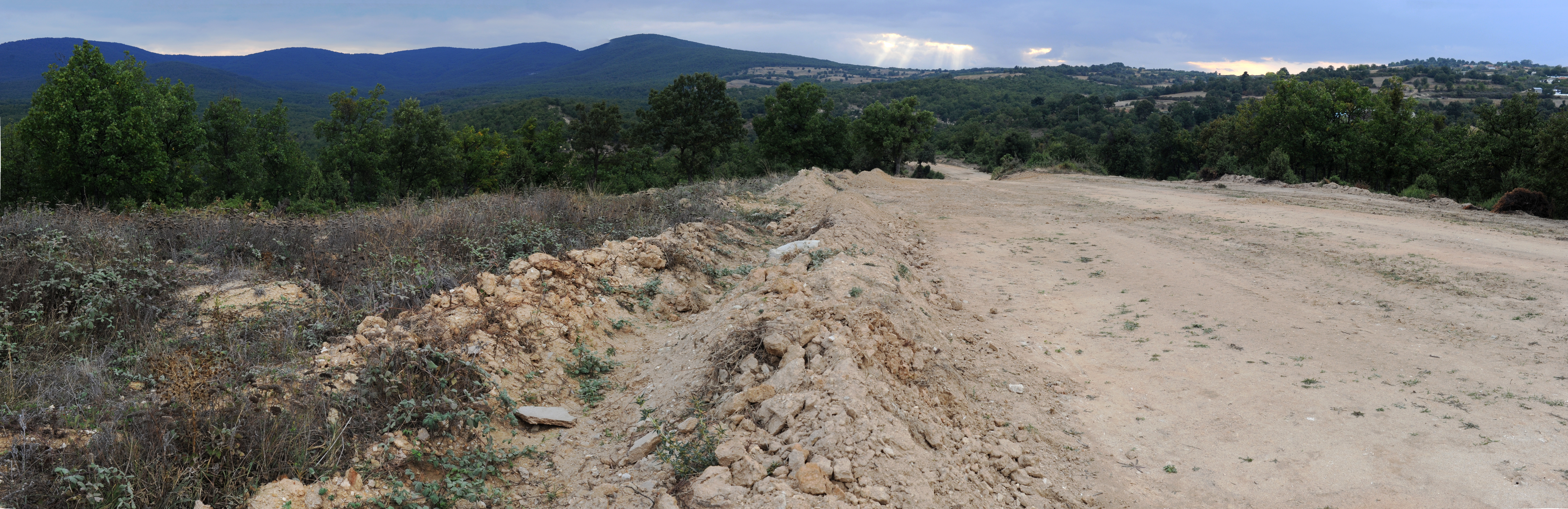 Refugees Immigrants without papers Graves in Sidiro Evros Greece.